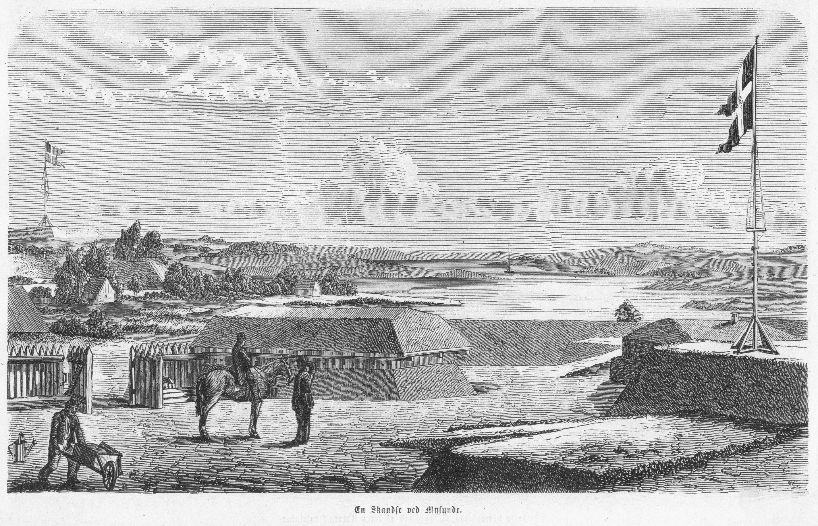 Danish fortification near Mysunde. Contemporary illustration of the 1864 German-Danish War. This drawing (by Frederik Christian Lund) was published in Illustreret Tidende, October 13, 1861, and showed the expansion of the Danish fortifications at Dannevirke at a time when there was still peace.